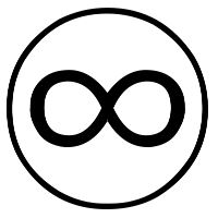 Logo found in many books printed on acid-free paper. It is usually accompanied by the following text: This text is printed on acid-free paper.